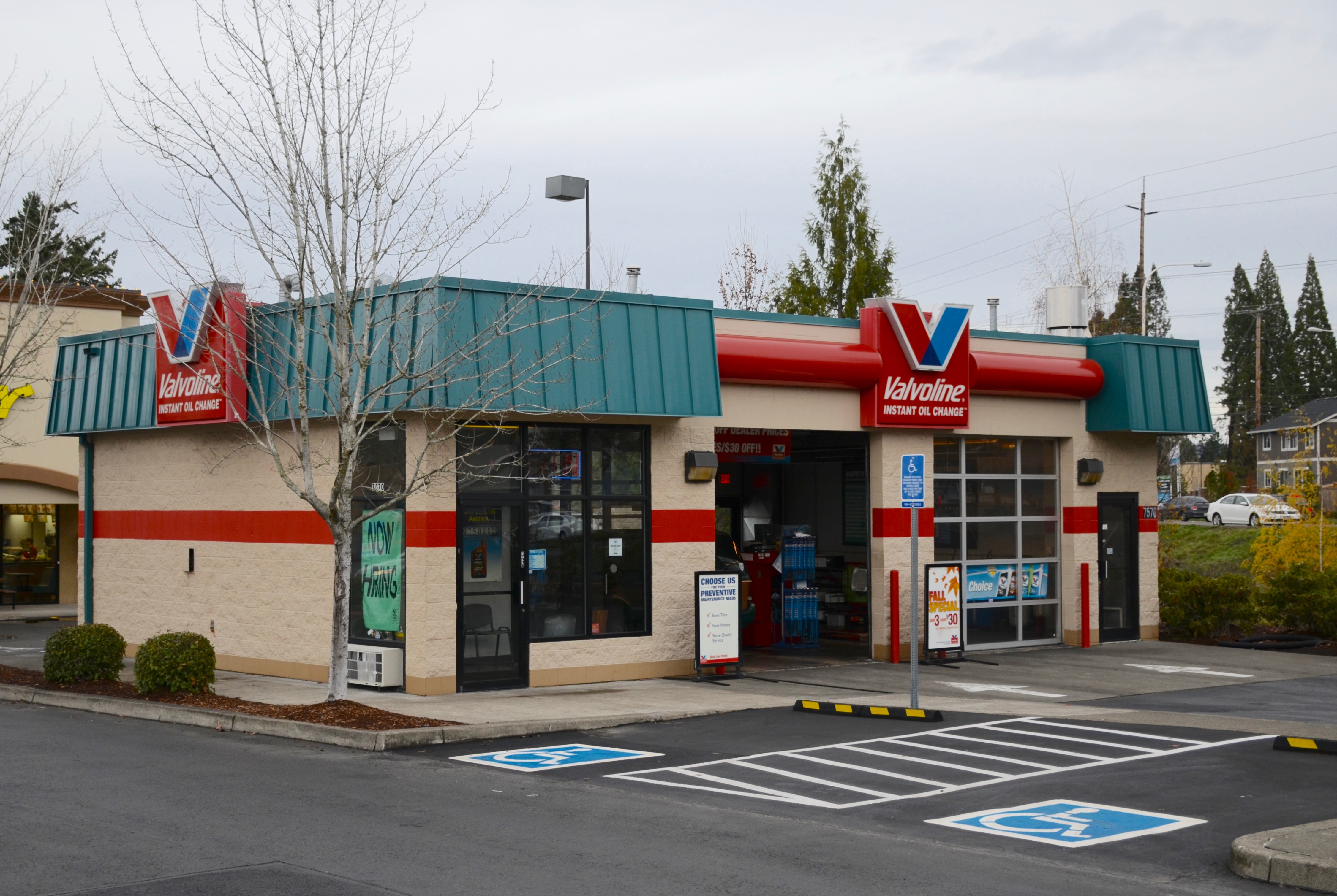 A Valvoline Instant Oil Change outlet in Hillsboro, Oregon, near the intersection of Baseline Road and Cornelius Pass Road.